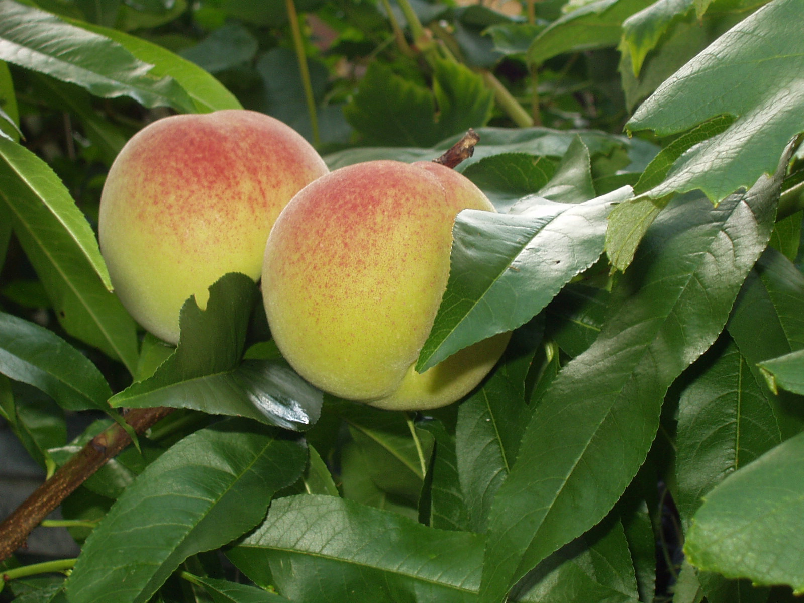 Peach fruit